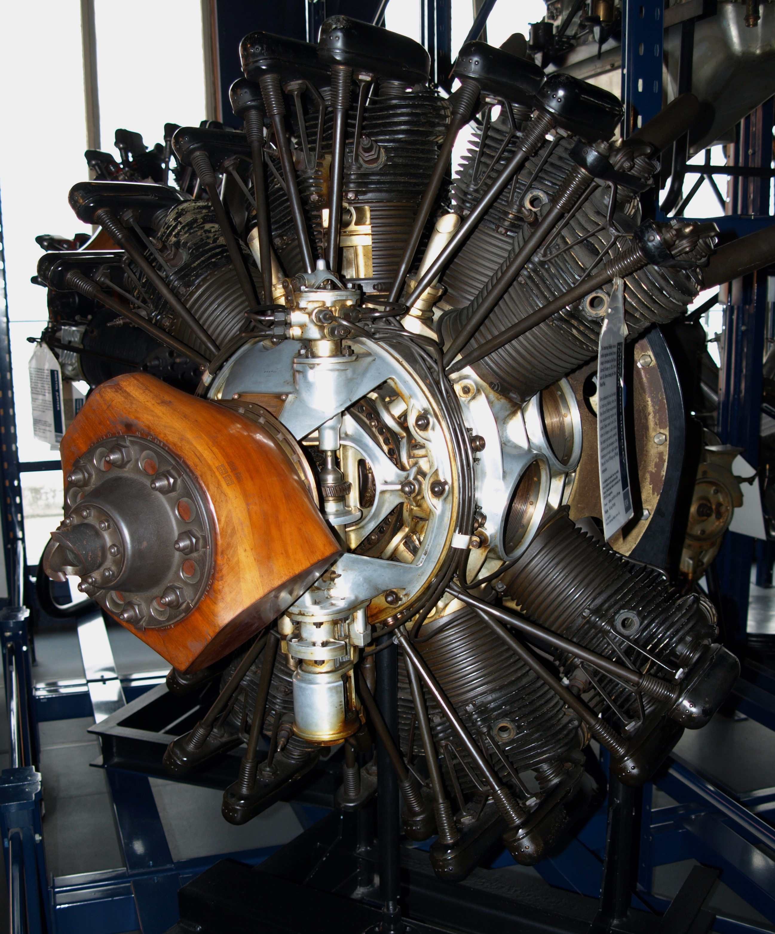 Armstrong Siddeley Jaguar aircraft engine at the Science Museum, London.